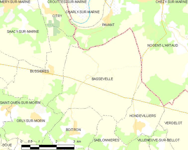 Map of French municipality Bassevelle